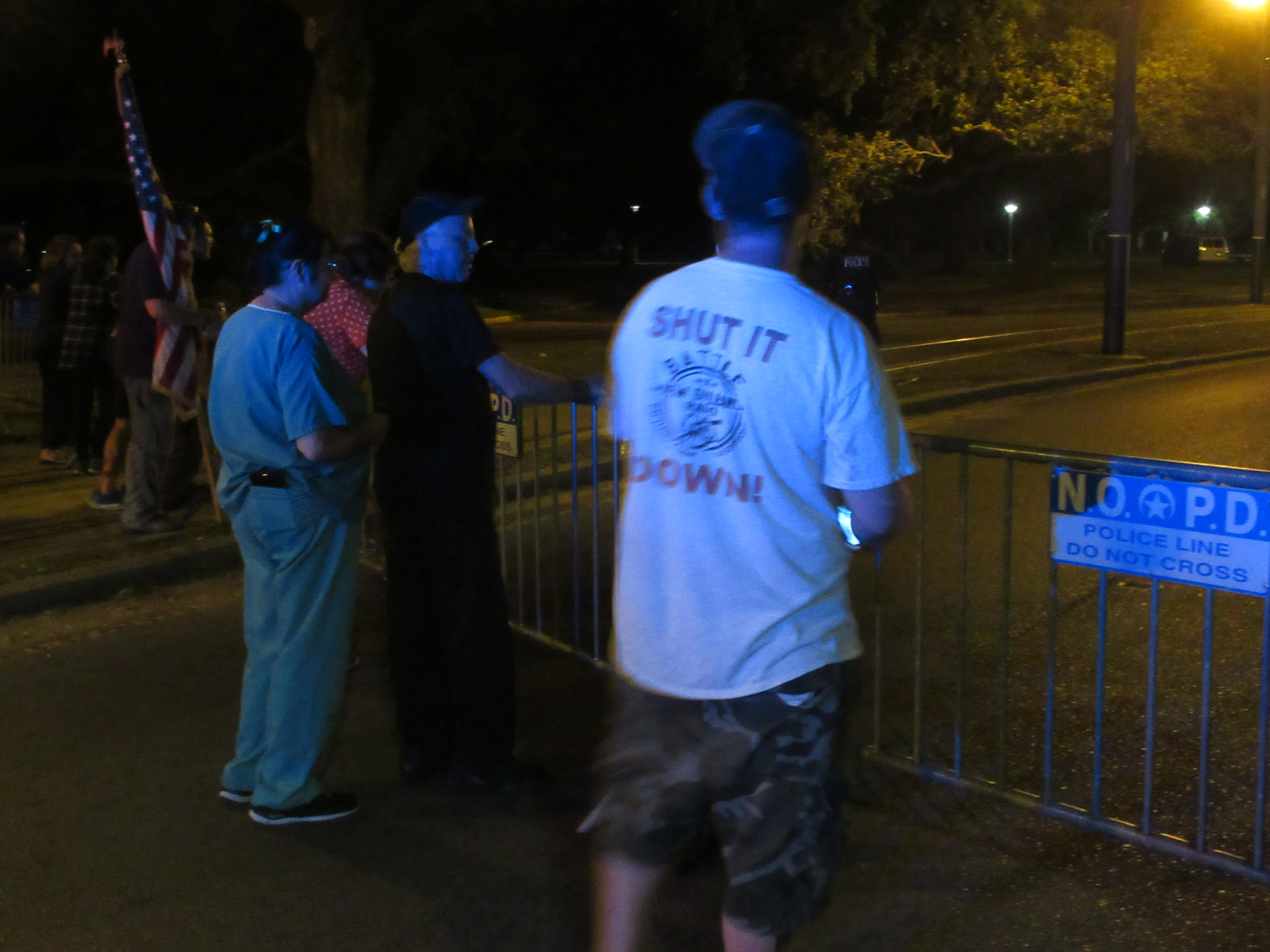 New Orleans, night of 16 May 2015. At barricades by foot of Carrolton Avenue by Bayou St. John, 1 block away of equestrian statue of P.G.T. Beauregard that the New Orleans City Council had authorized to be removed from its prominent location. Preparations were underway to at the time detach and lift the statue off it's base. Barricades kept spectators back a full block, in part due to death threats against workers removing the monument. Groups of people gathered near the barricades, some cheering the removal, some protesting against it, and others merely curious to watch. Man wears shirt "Battle of New Orleans 2017" "SHUT IT DOWN", presumably related to online neo-Confederate and alt-right hype that the response to the proposed removal Confederate monuments in New Orleans will be major battle which will shut the City down. To date with 3 of the 4 monuments already removed, no such incident has occurred. The statue was in a small traffic circle called Beauregard Circle at the foot of Esplanade Avenue at one of the entrances to City Park at the intersection of Carrollton and Wisner Boulevard beside Bayou St. John. The statue was removed on the night of 16 May / early morning 17 May 2017, to be put in storage pending finalization of plans to put it in a museum, sculpture park, or similar facility with historic context. Photo by Infrogmation of New Orleans, May 2017. Free reuse with author attribution in accordance with any of the licenses listed by the author/photographer. Reuse without photo attribution is a violation of copyright.